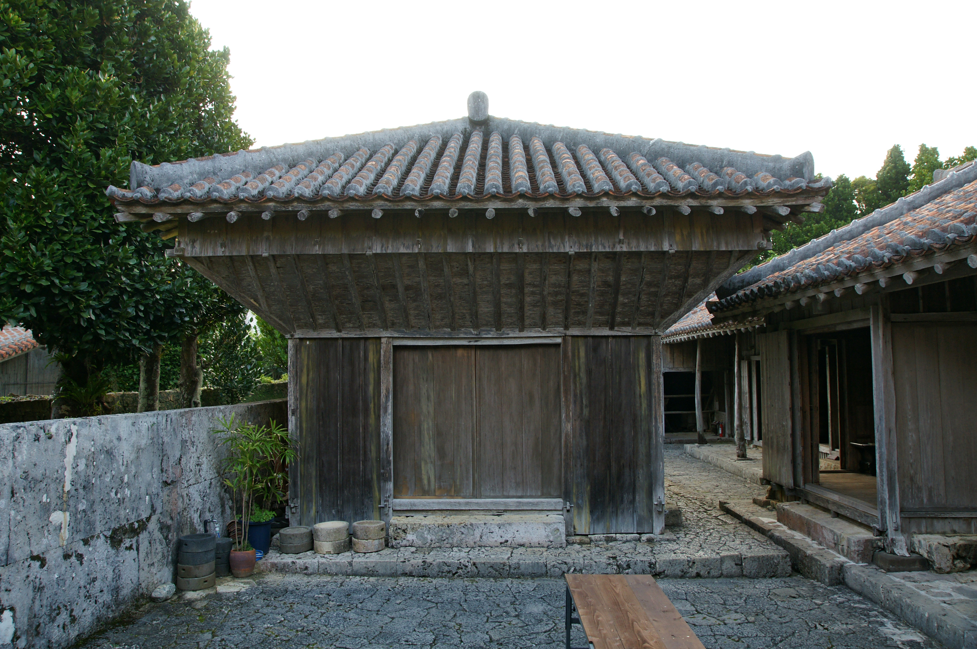 Nakamura House in Kitanakagusuku, Okinawa prefecture, Japan.